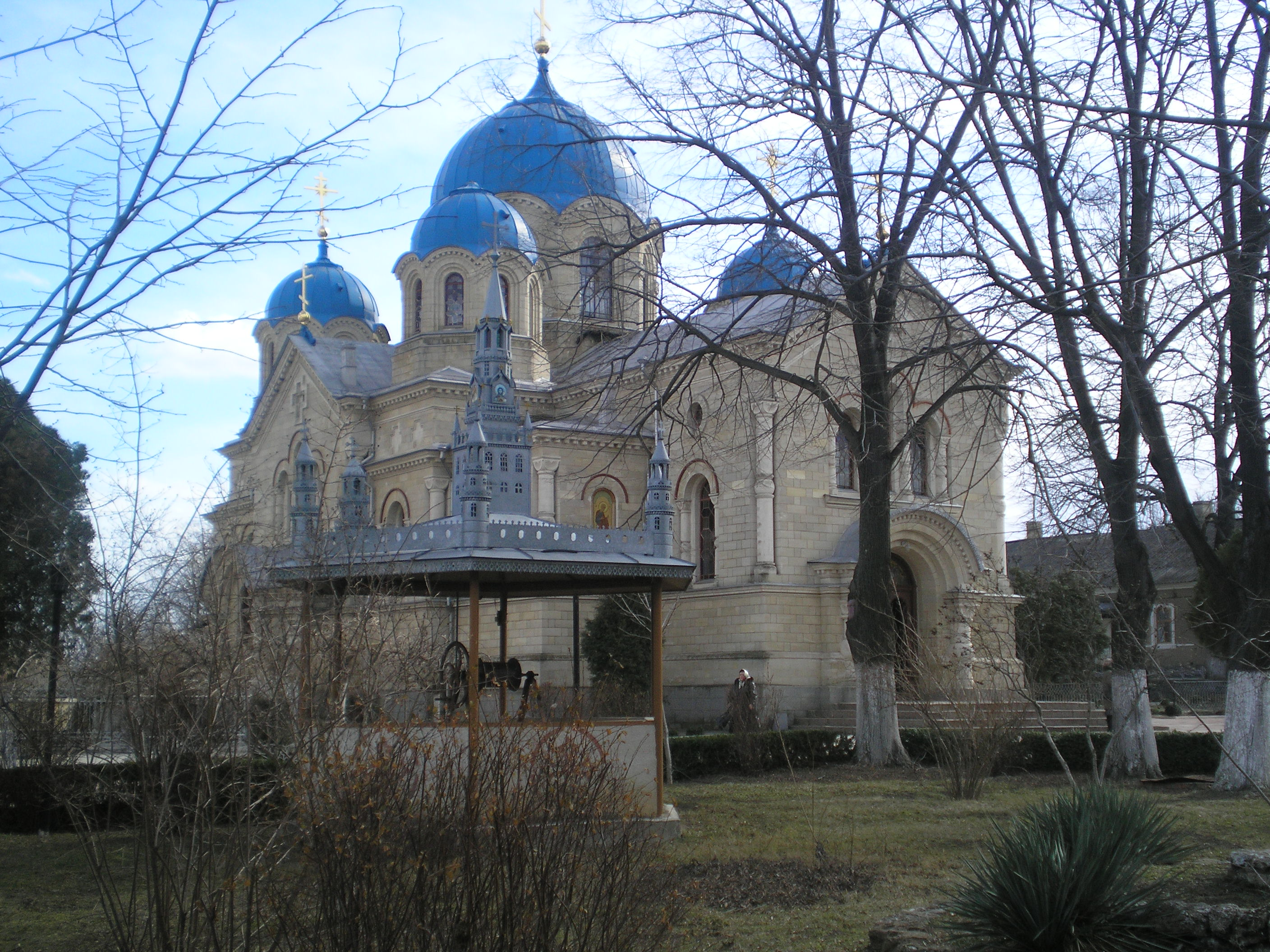 Kitskany monastery, Transnistria